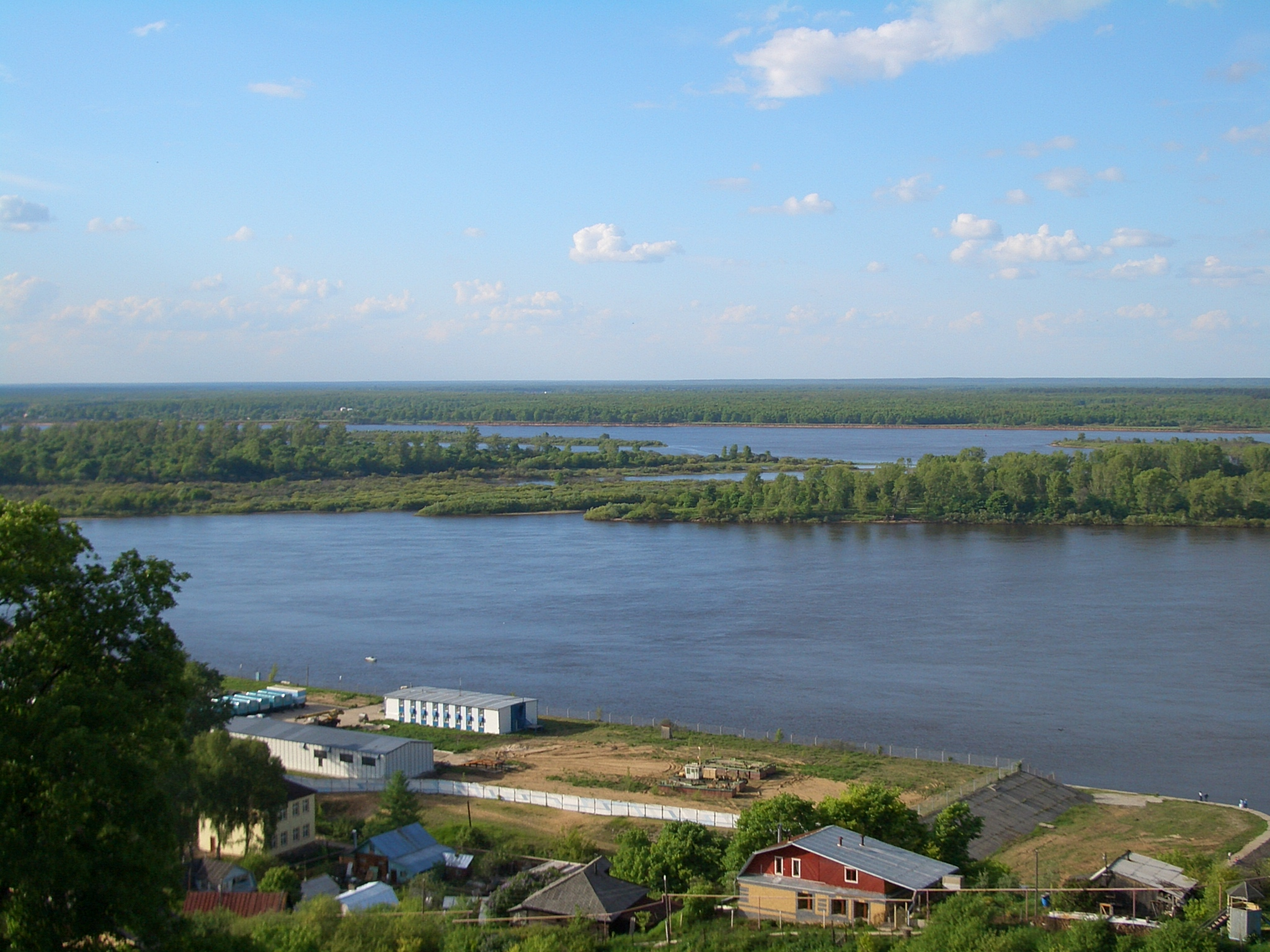 A view of Volga from the Upper part of the village of Bezvodnoye, Kstovsky District, Nizhny Novgorod Oblast